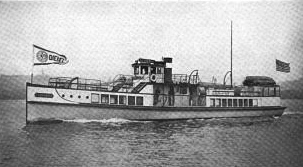 Motor vessel Suquamish, launched 1914.